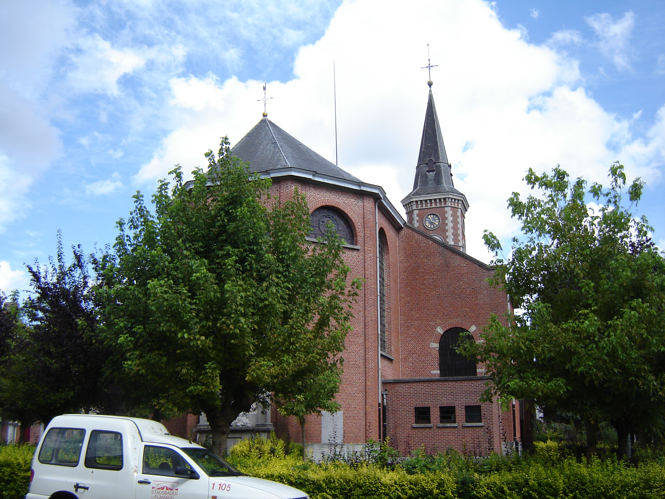 Church of Saint Peter and Paul in Kallo. Kallo, Beveren, East Flanders, Belgium